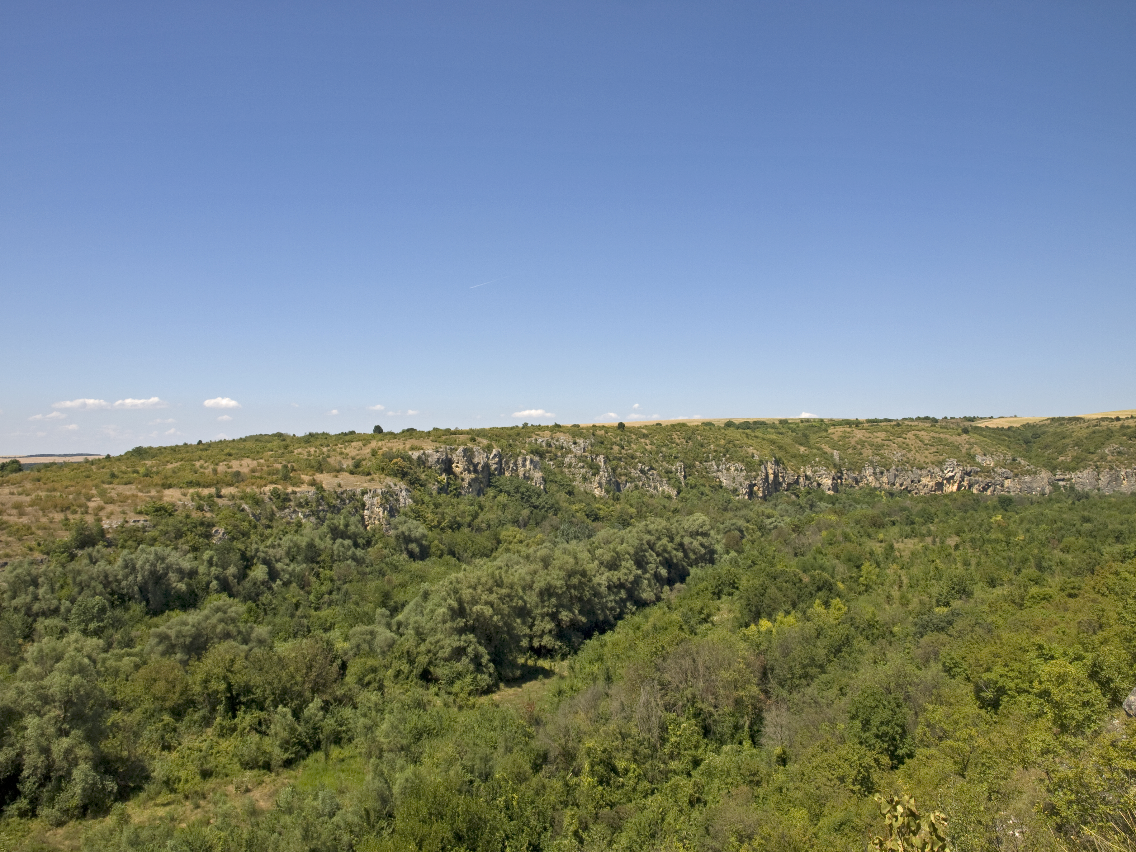 Rocks in Rusenski Lom Nature Park